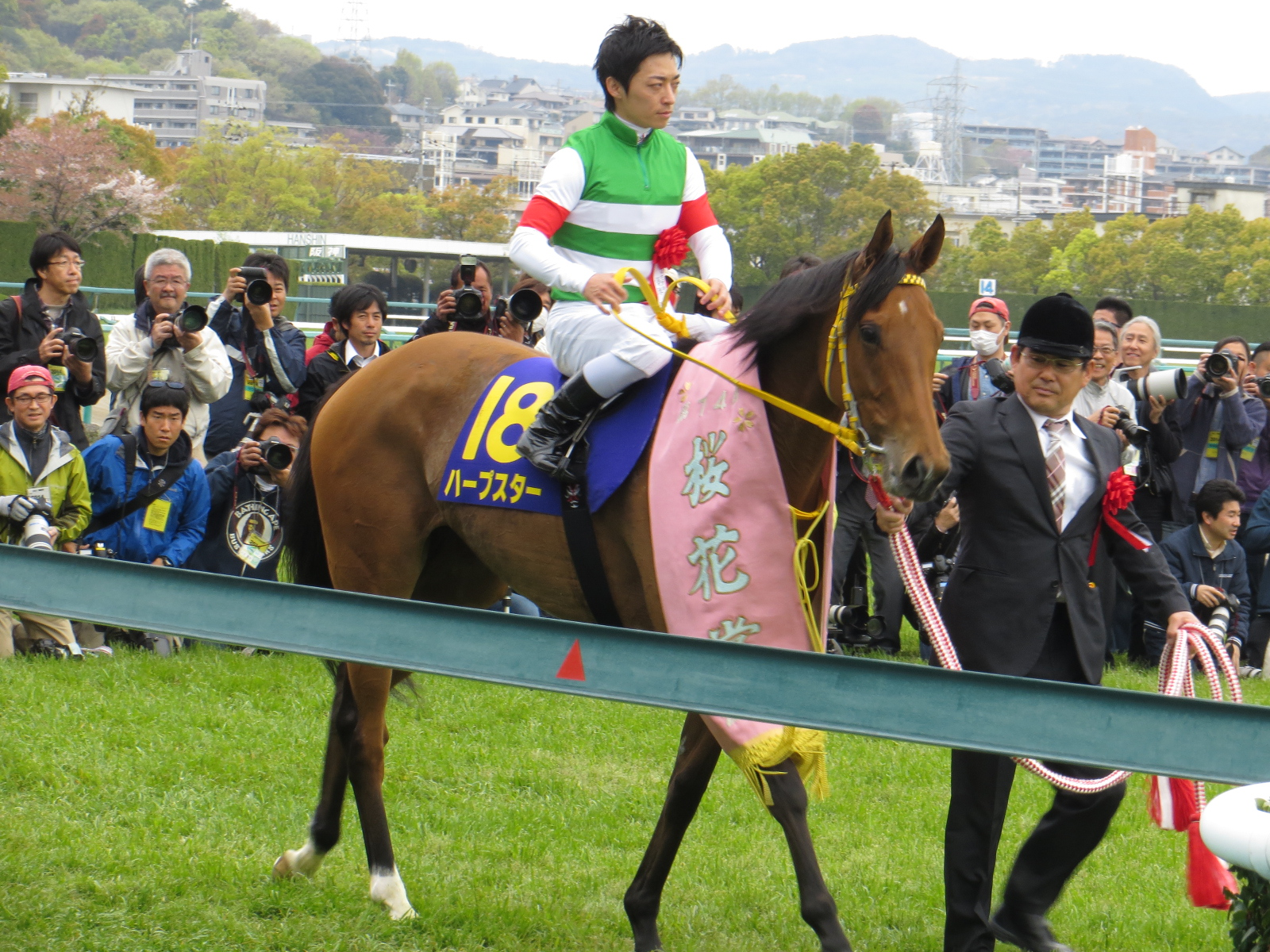 Harp Star in 74th Oka Sho, Hanshin Racecourse.